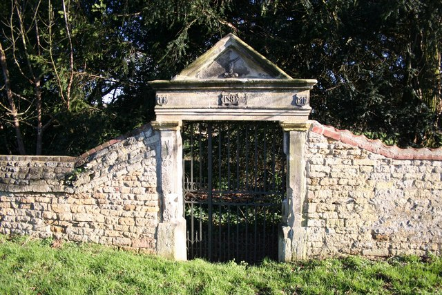 Elizabethan gateway An Elizabethan gateway dated 1583 by the road near Fulbeck Hall, it came from Tudely in Kent.